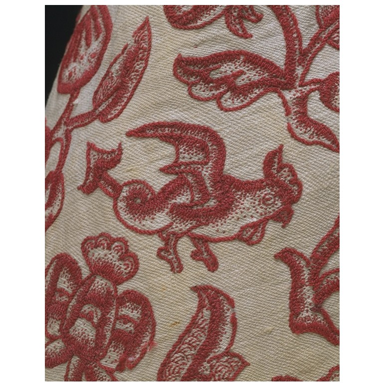 Crewel work on cotton and linen twill ground; stem stitch with long, short and coral stitches and French knots, 1630s V&A Museum no.T.124-1938 Artist/designer - Unknown Place - England Dimensions- Length 18 in (sleeve, outer seam) A mythical bird is just one of the fanciful creatures that populate this embroidered jacket of the 1630s. Worked in red wool on a thick twill of linen warp and cotton weft, the coarseness of the thread and heaviness of the ground lack the delicacy of similar garments embroidered in silk on finer linen, but overall the work has a certain enchanting vitality. The design shows a development in later Jacobean needlework – the scrolling vines seen on jackets of the first two decades of the 17th century have disappeared. Each motif is worked separately, while retaining the curvilinear dynamism typical of Jacobean embroidery. During the later 17th century, this type of needlework, known as crewel work, grew in popularity. It became an important method of decorating household furnishings, particularly bed curtains and valances.